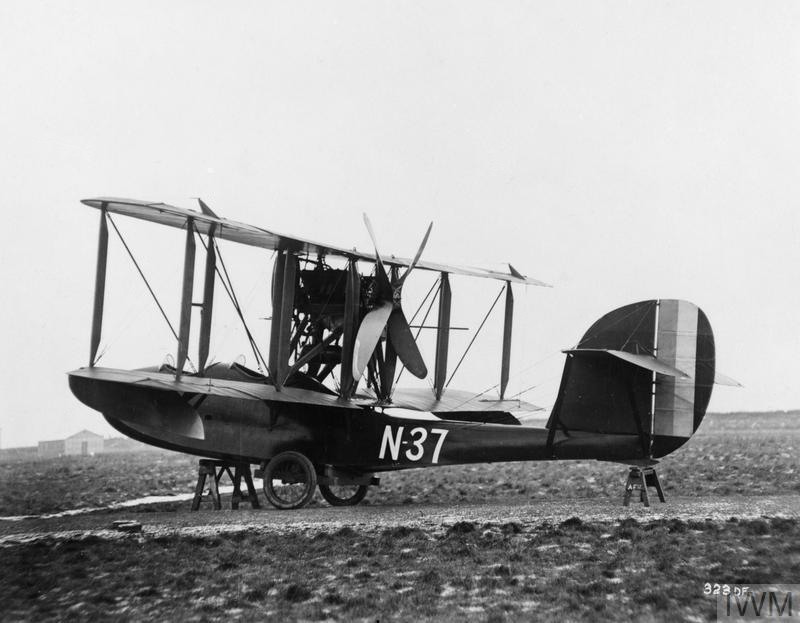 Photograph of Norman Thompson N.1B (N37) Admiralty, rear left 1/4 view.